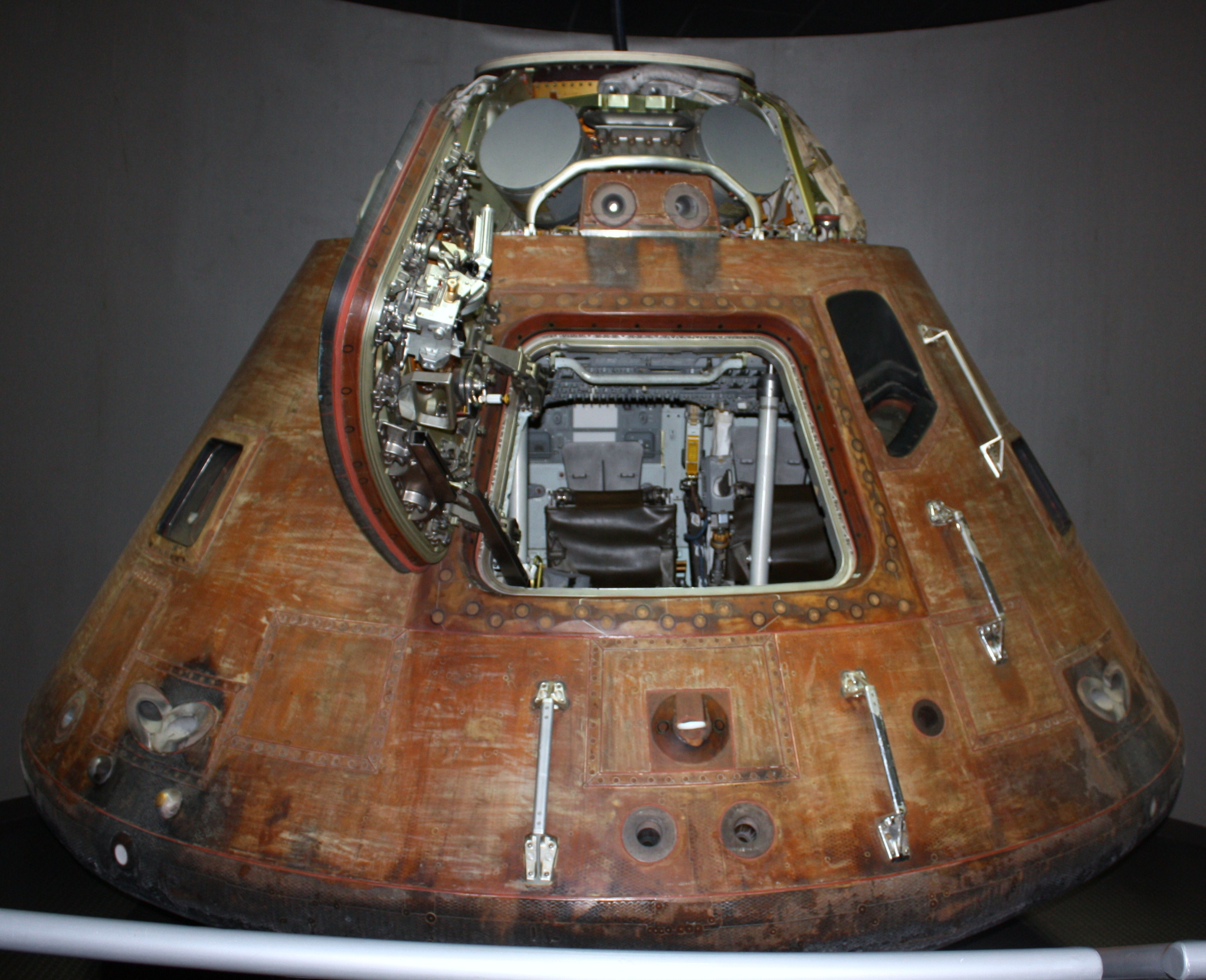 The Apollo 14 Command Module, the Kitty Hawk on display at the Kennedy Space Centre's Saturn V Centre.